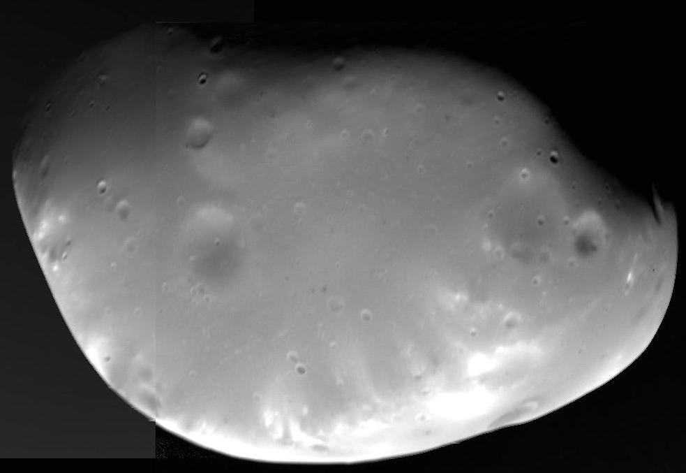 This computer mosaic of Deimos was made with images acquired from Viking Orbiter during one of its close approaches to the moon. The 15-km (9-mi) diameter Deimos circles Mars every 30 hours. Scientists speculate that Deimos and its companion moon Phobos were once passing asteroids that were pulled in by the gravity of Mars.